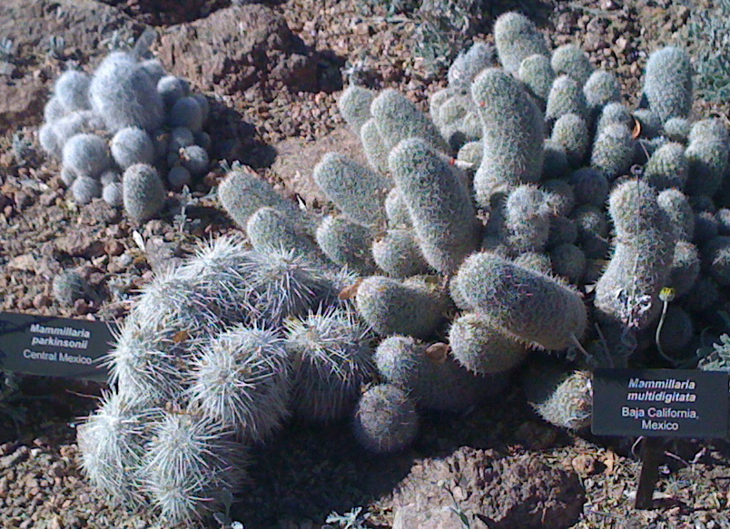 Mammillaria species at Desert Botanical Garden, Phoenix, AZ. Mammillaria parkinsonii and Mammillaria multidigitata are labeled